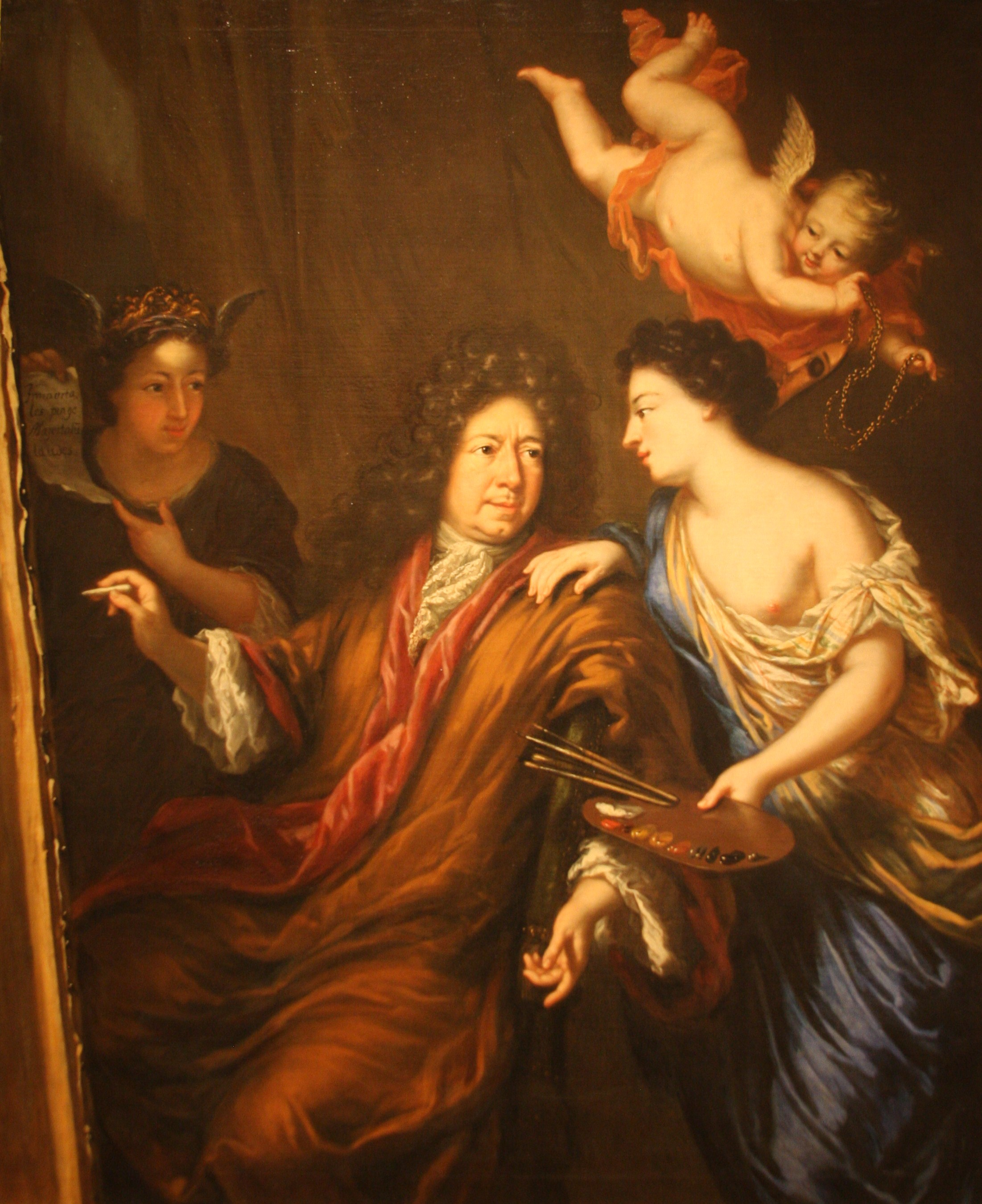 Selfportrait with Allegories